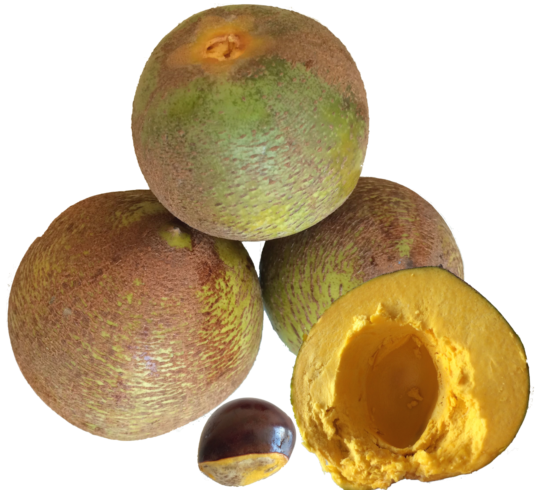 A group of Lúcumas from Chile.